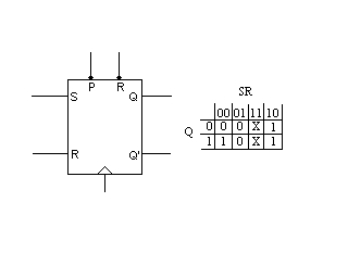 SR-type Flip-Flop